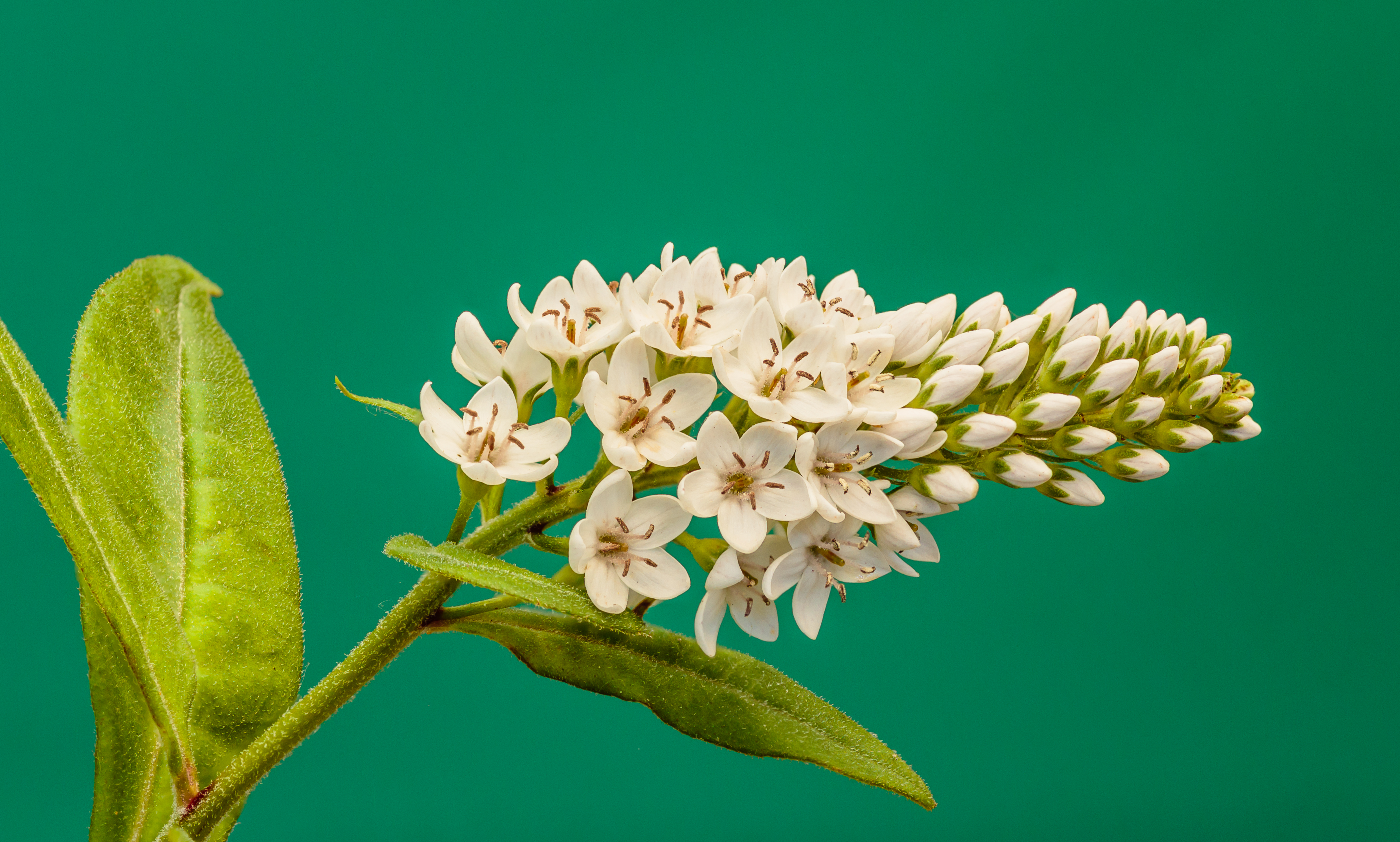 Flowers and buds of a Lysimachia clethroides , with its characteristic inflorescence. Family Primulaceae . Focus stack of 15 photos.